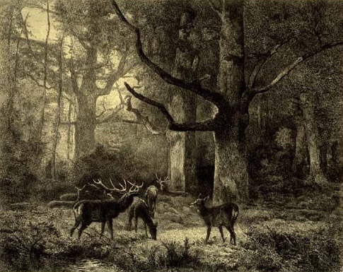 Forest of Fontainbleau